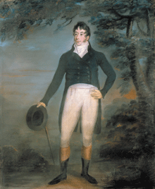 John McDonald of Garth Collection de folklore et d’histoire locale de l’Alberta/Bibliothèque de collections Spéciales Bruce Peel, Université de l’Alberta, 96-93-529